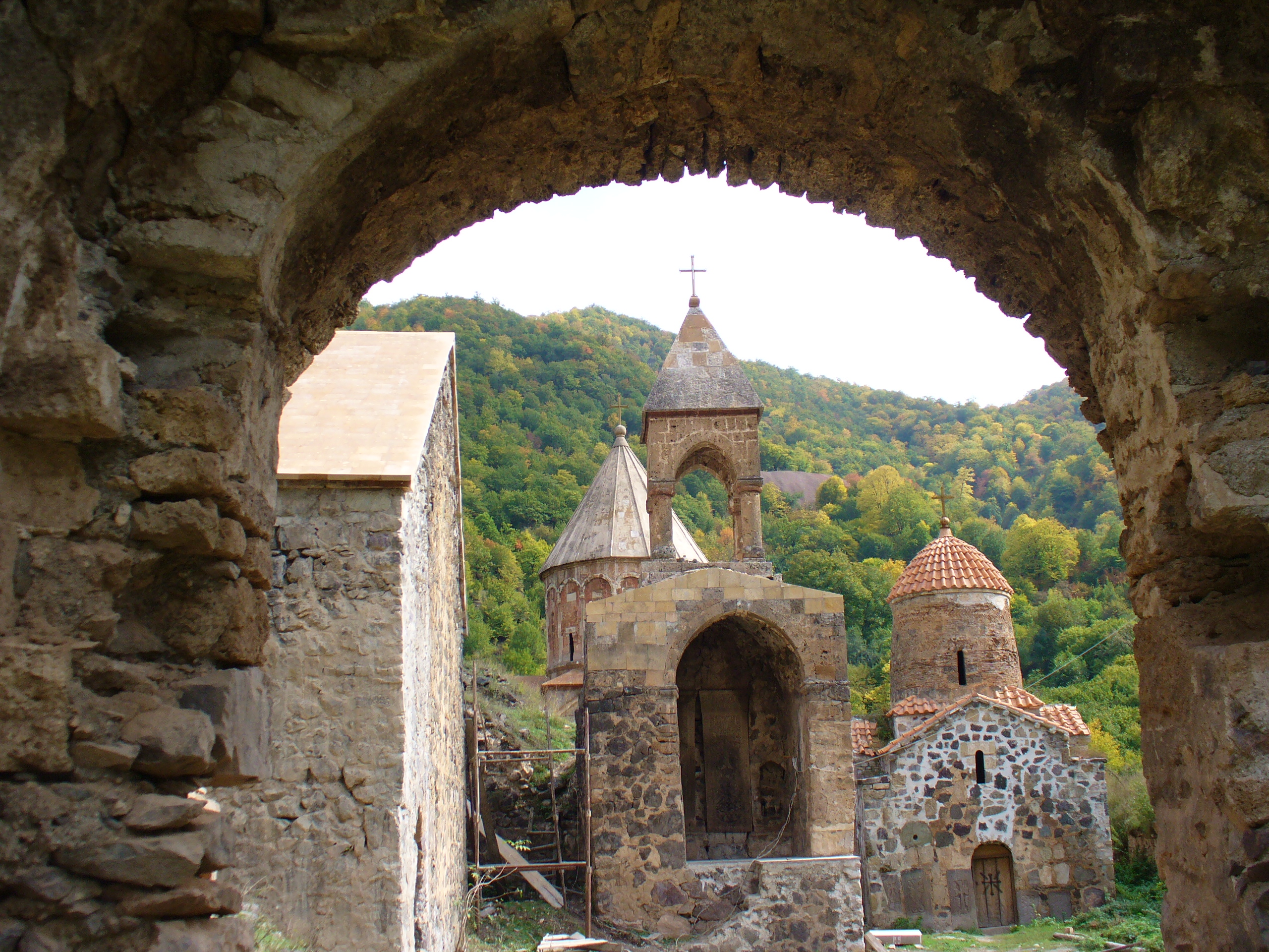 Dadivank Monastery